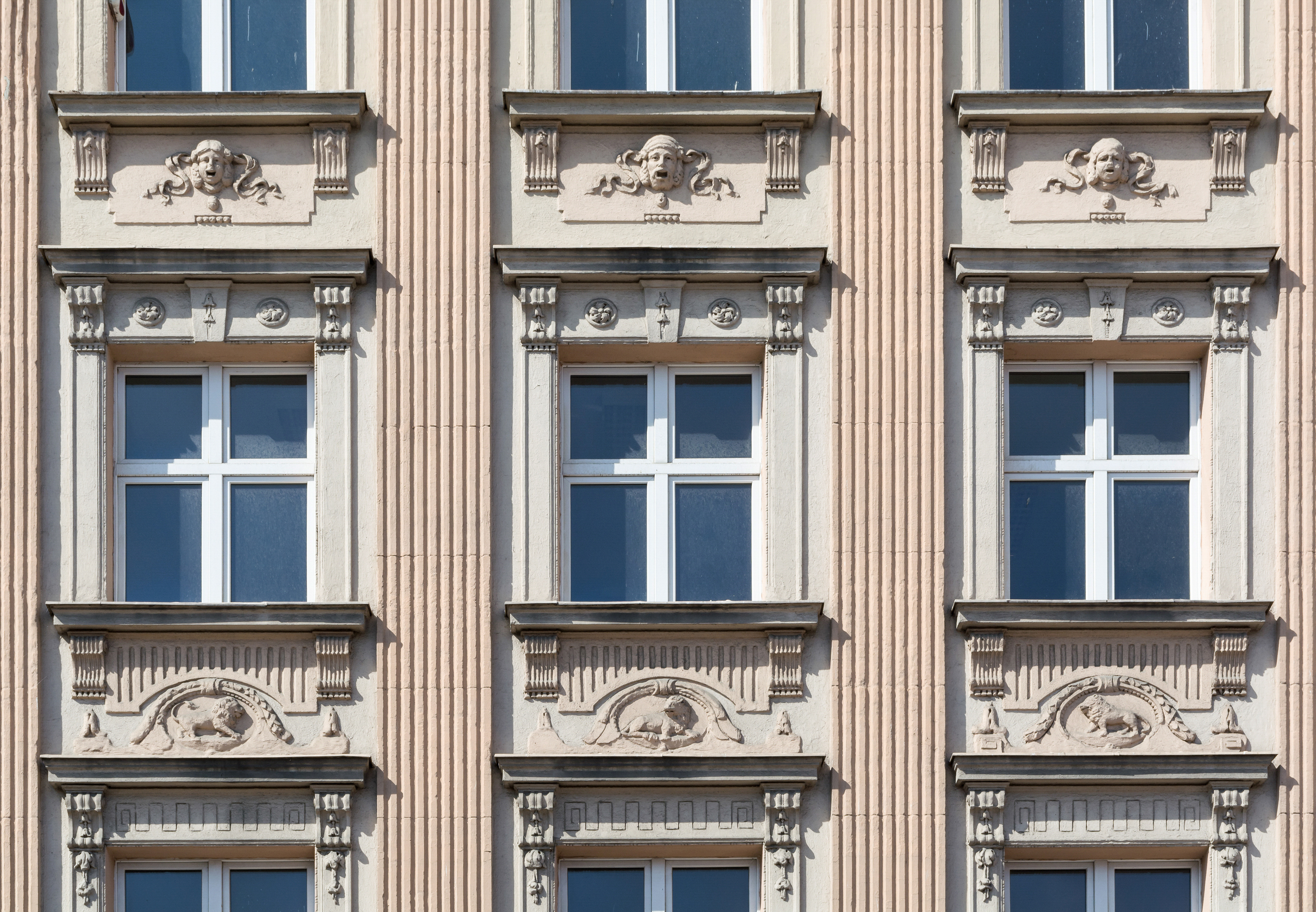 5 Połabska Street in Kłodzko